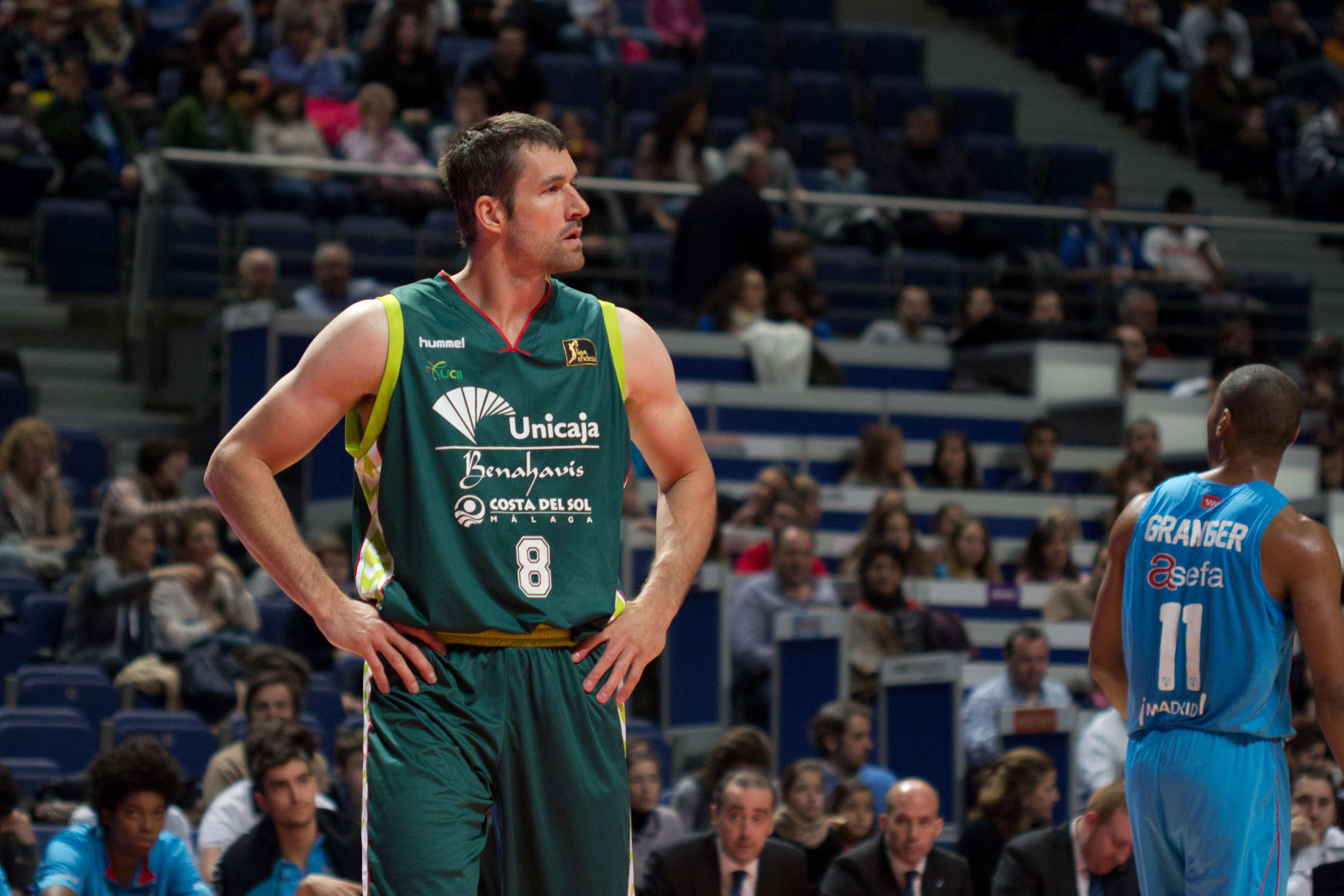 Andy Panko. Game Estudiantes vs Unicaja Málaga.